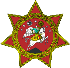 Former Coat of Arms of Georgia, used from 1918 to 1921 and 1991 to 2004.